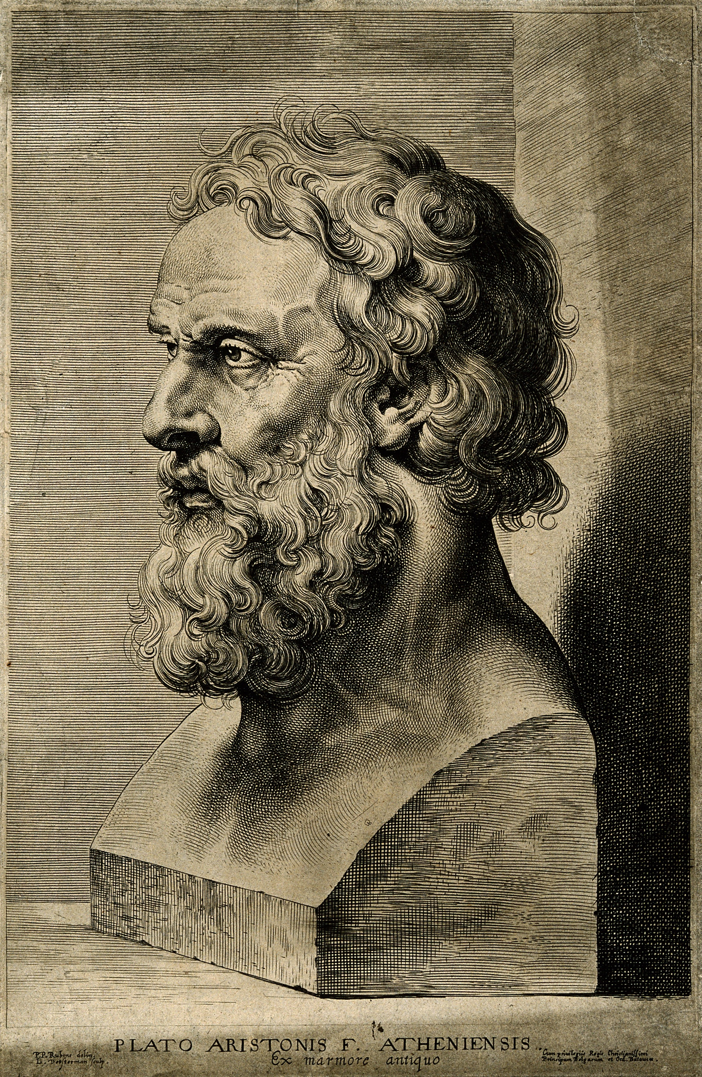 Plato. Line engraving by L. Vorsterman after Sir P. P. Rubens. Iconographic Collections Keywords: portrait prints; Lucas Emil Vorsterman; engravings; Plato